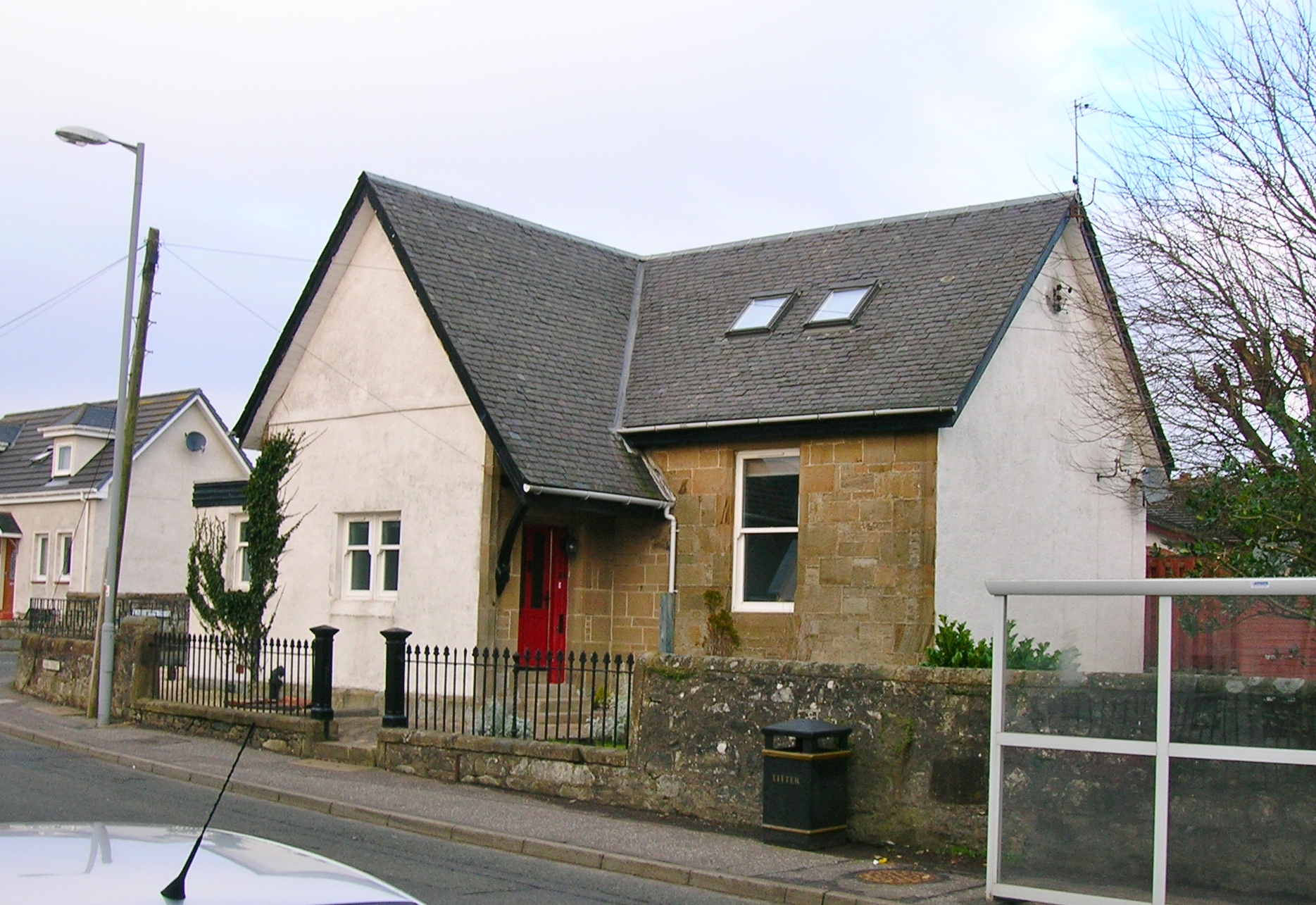 Loans, old school, Main Street, Loans, South Ayrshire, Scotland.